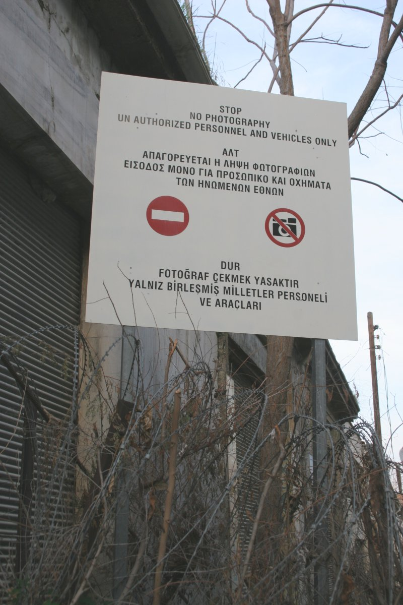 The capital Nicosia remains divided since 1974. A UN buffer zone separates the two sectors.